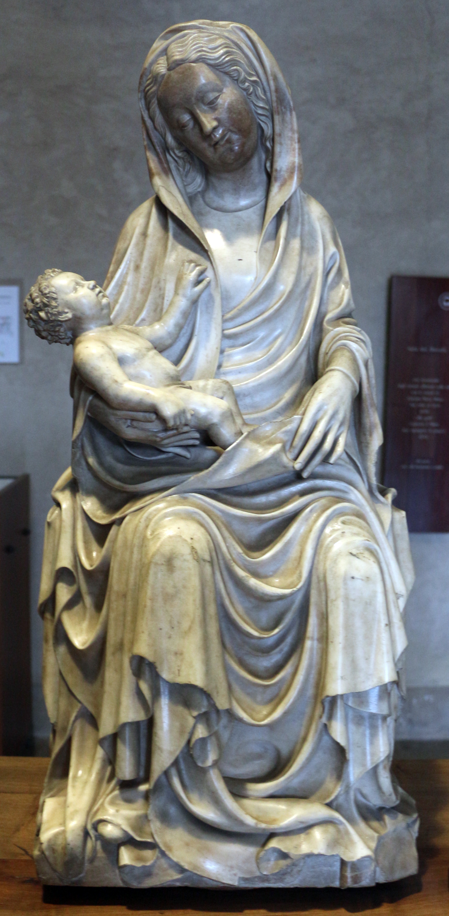 Museo d'arte antica (Milan) - 15th-century sculptures